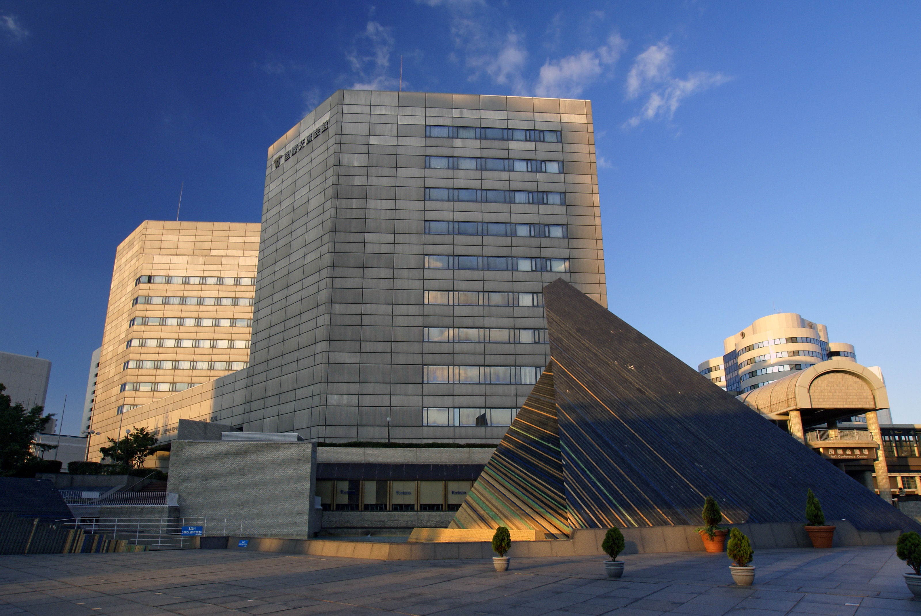 Kobe International Conference Center in Kobe, Hyogo prefecture, Japan